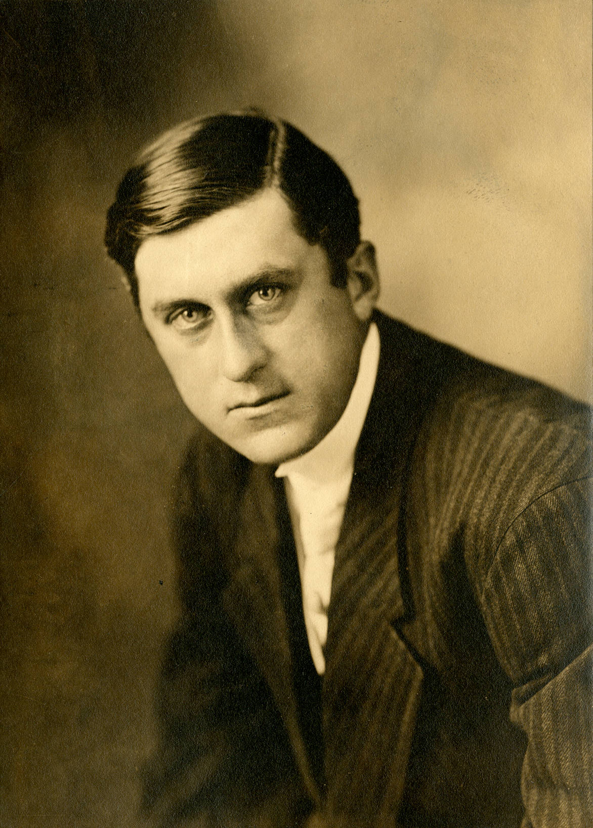 Stock actor True Boardman. Subjects: actors